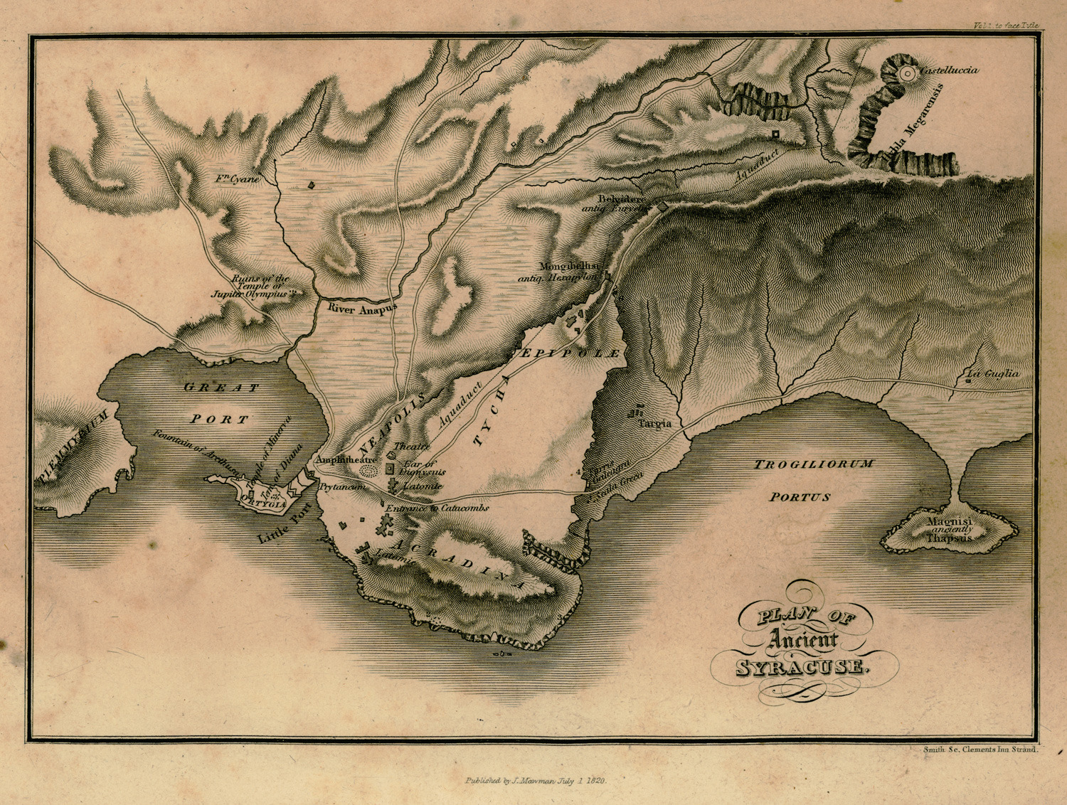 Thomas Smart Hughes, Travels in Sicily Greece and Albania… Illustrated with engravings of maps scenery plans, vol. I, London, J. Mawman, 1820.